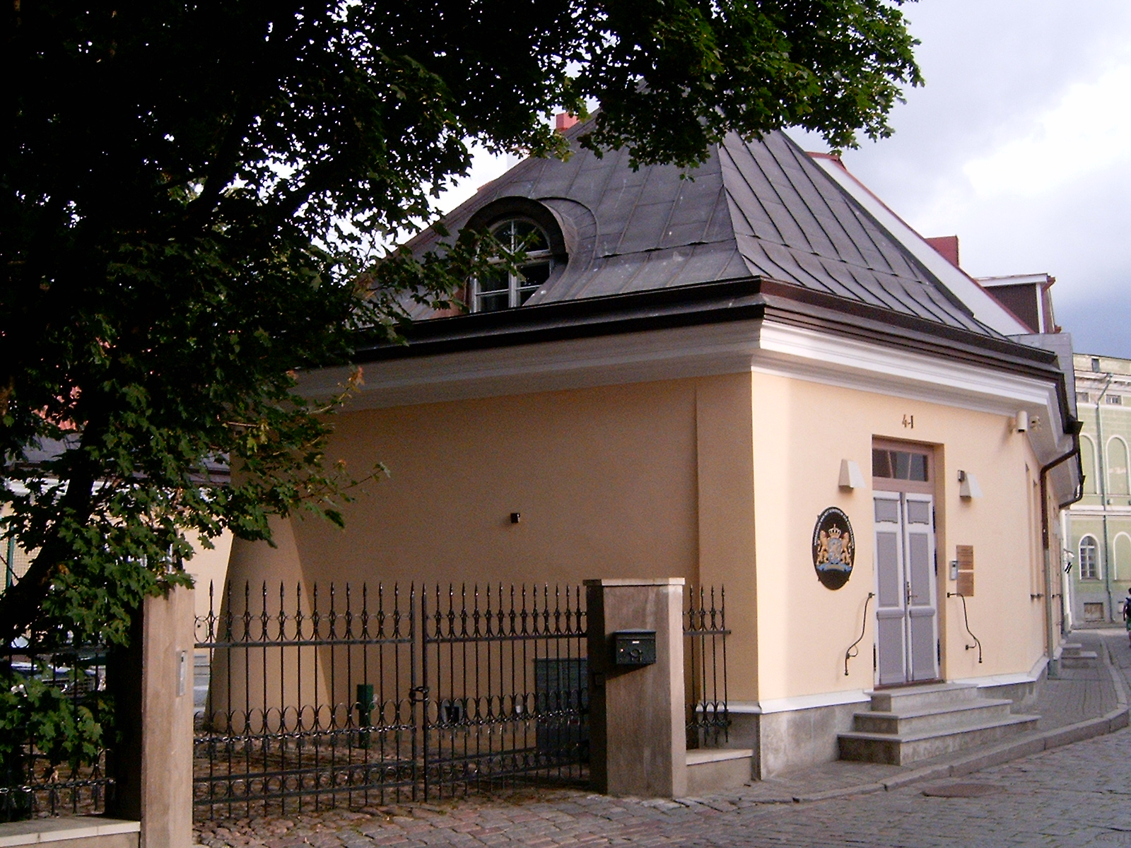 Embassy of Nederlands in Tallinn, 4-I Rahukohtu street